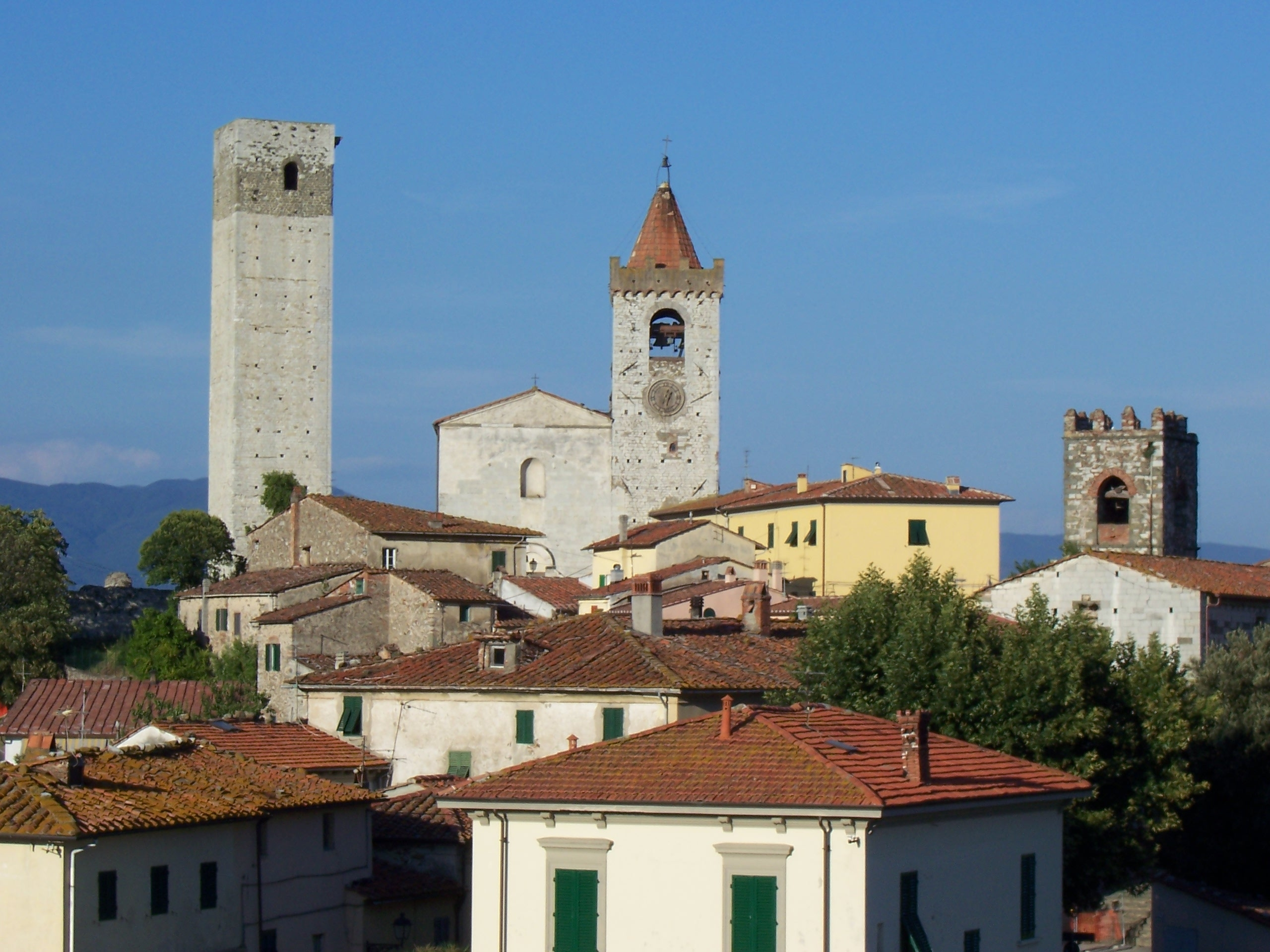 Serravalle Pistoiese, view over the village